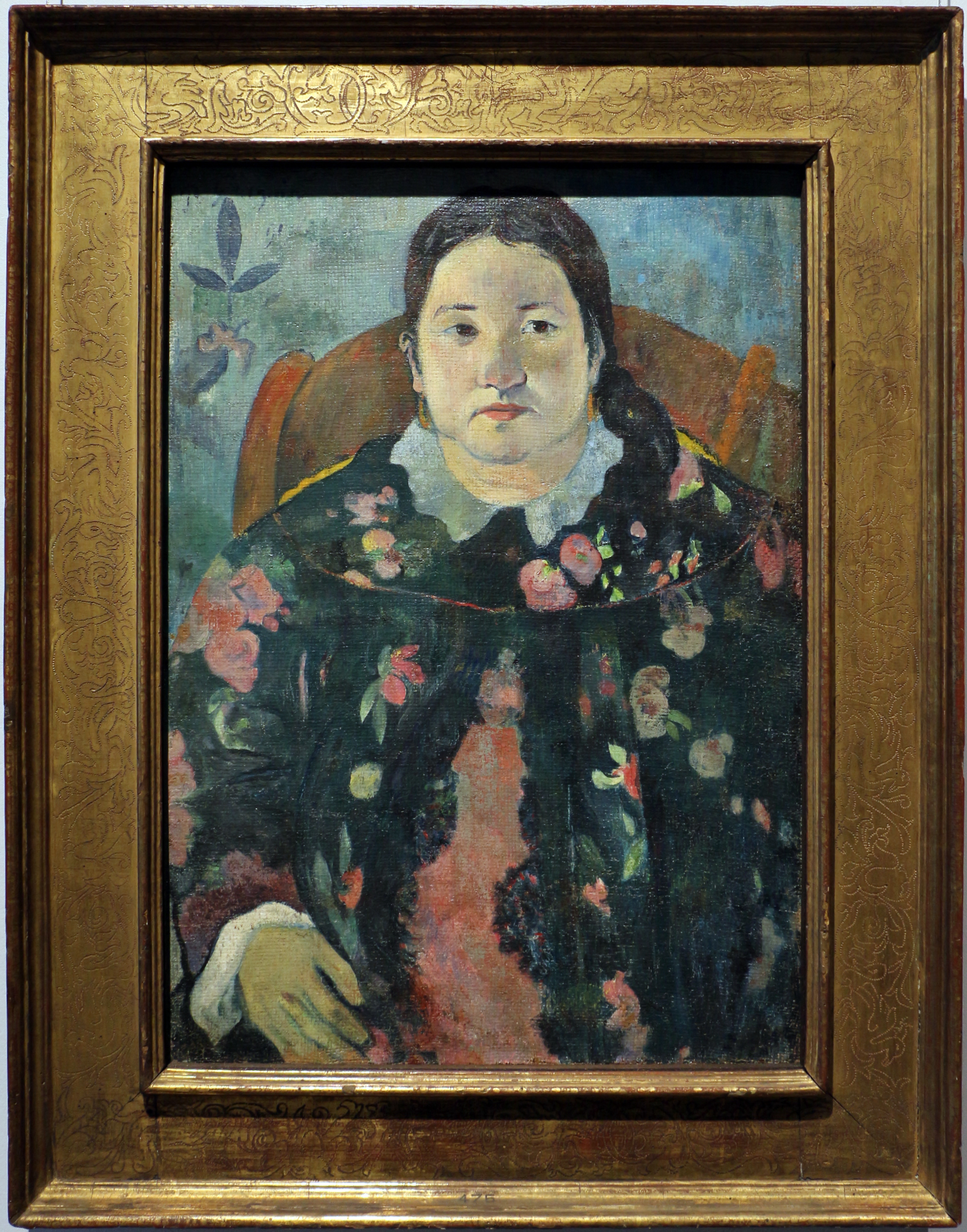 Paintings in the Fin de Siècle Museum